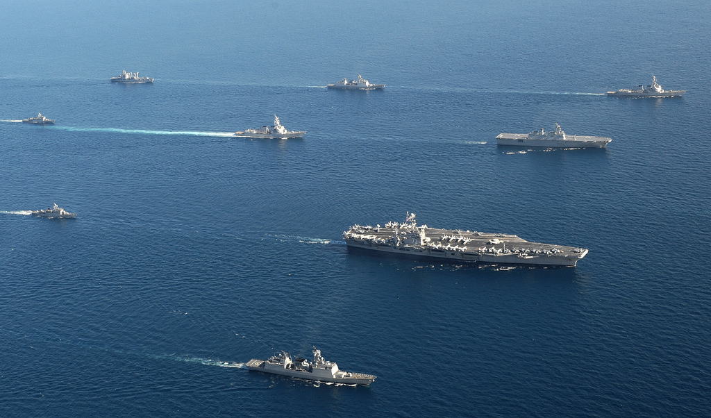 동해해상에서 실시한 한미연합해상훈련에 참가한 수상함정들 Rep. of Korea Navy Korea US Combine Training